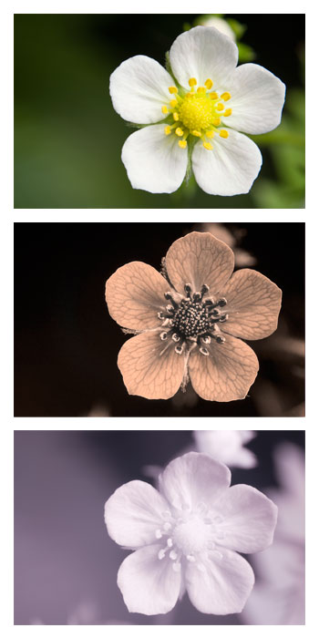 Spectral comparison of a Wild Strawberry (Fragaria vesca) flower in reflected visible light (top), ultraviolet light (middle) and infrared light (bottom). The flower has a clear UV nectar guide pattern, with the petals appearing darker at the base in ultraviolet. The centre of the flower also appears much darker in ultraviolet. In infrared the centre of the flower appears much brighter than it does under visible light.